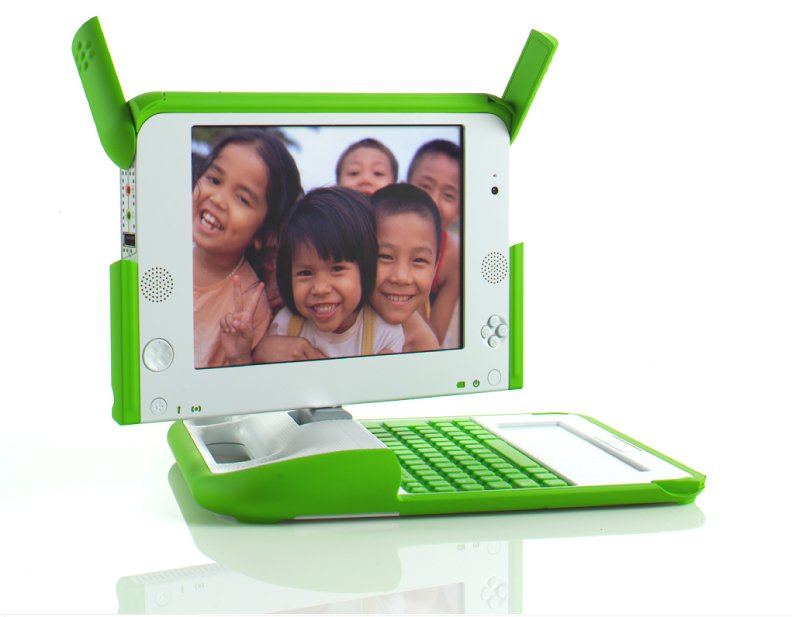 100 dollar laptop: production prototype